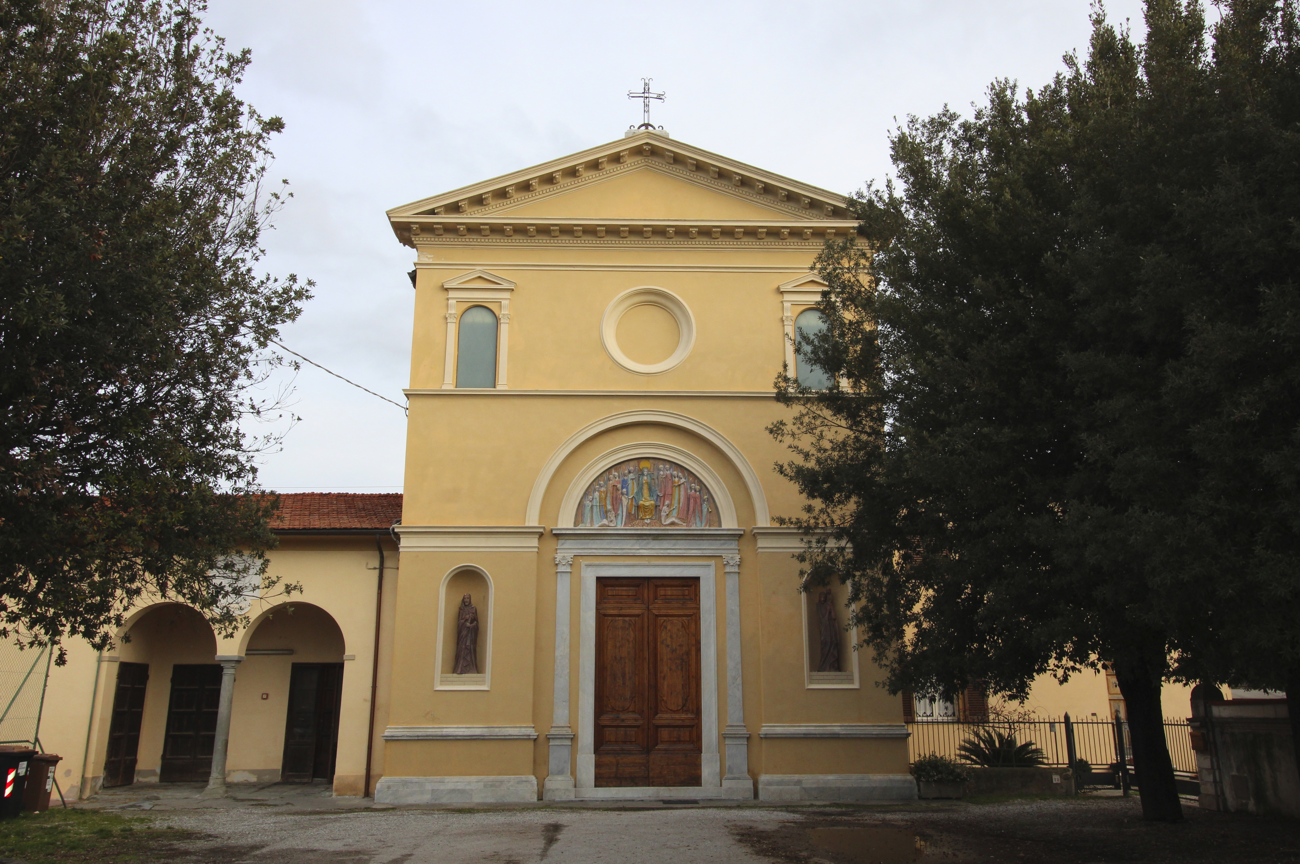 Church Santi Jacopo e Cristoforo, Colignola, hamlet of San Giuliano Terme, Province of Pisa, Tuscany, Italy